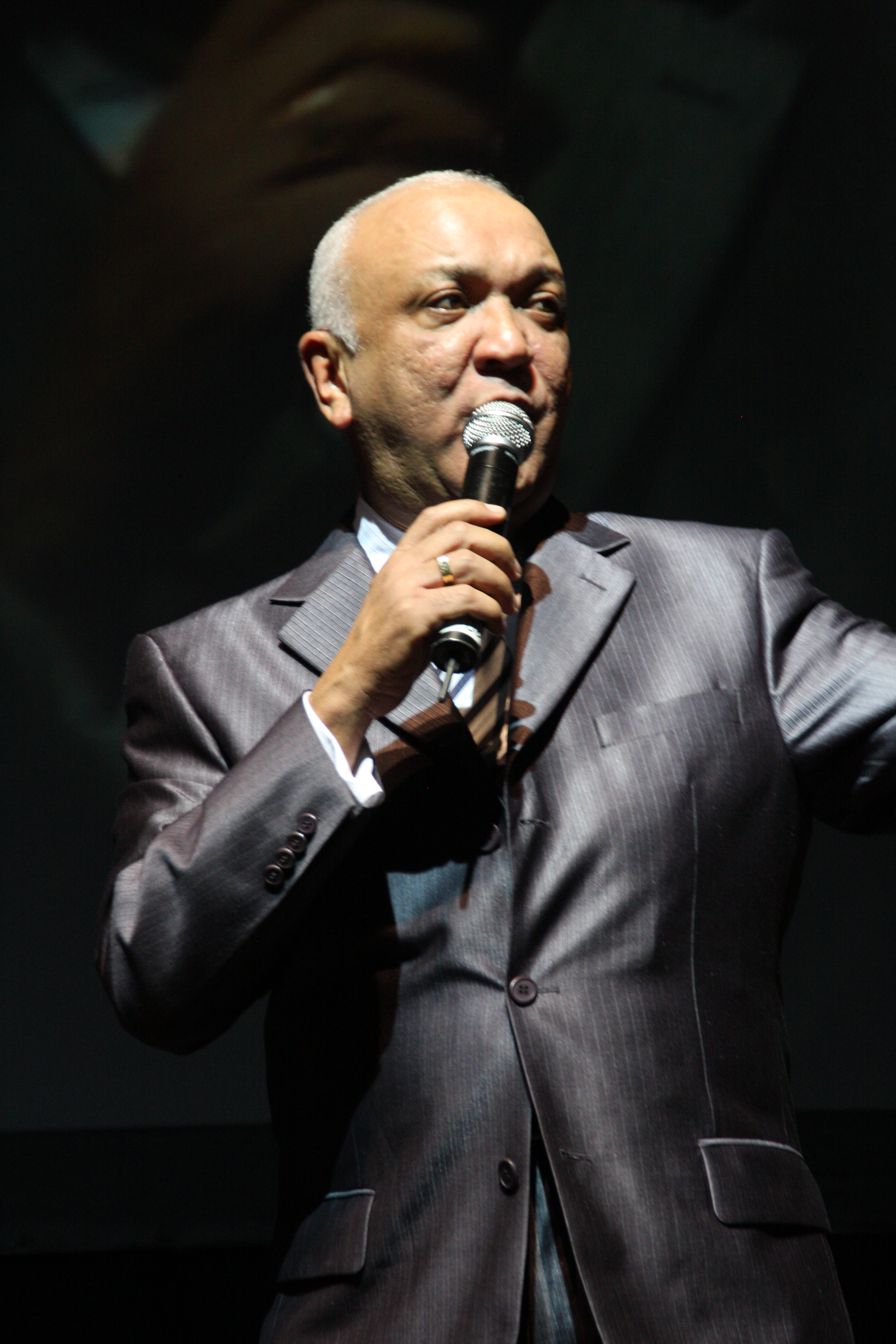 Dominican tv host Jochy Santos.